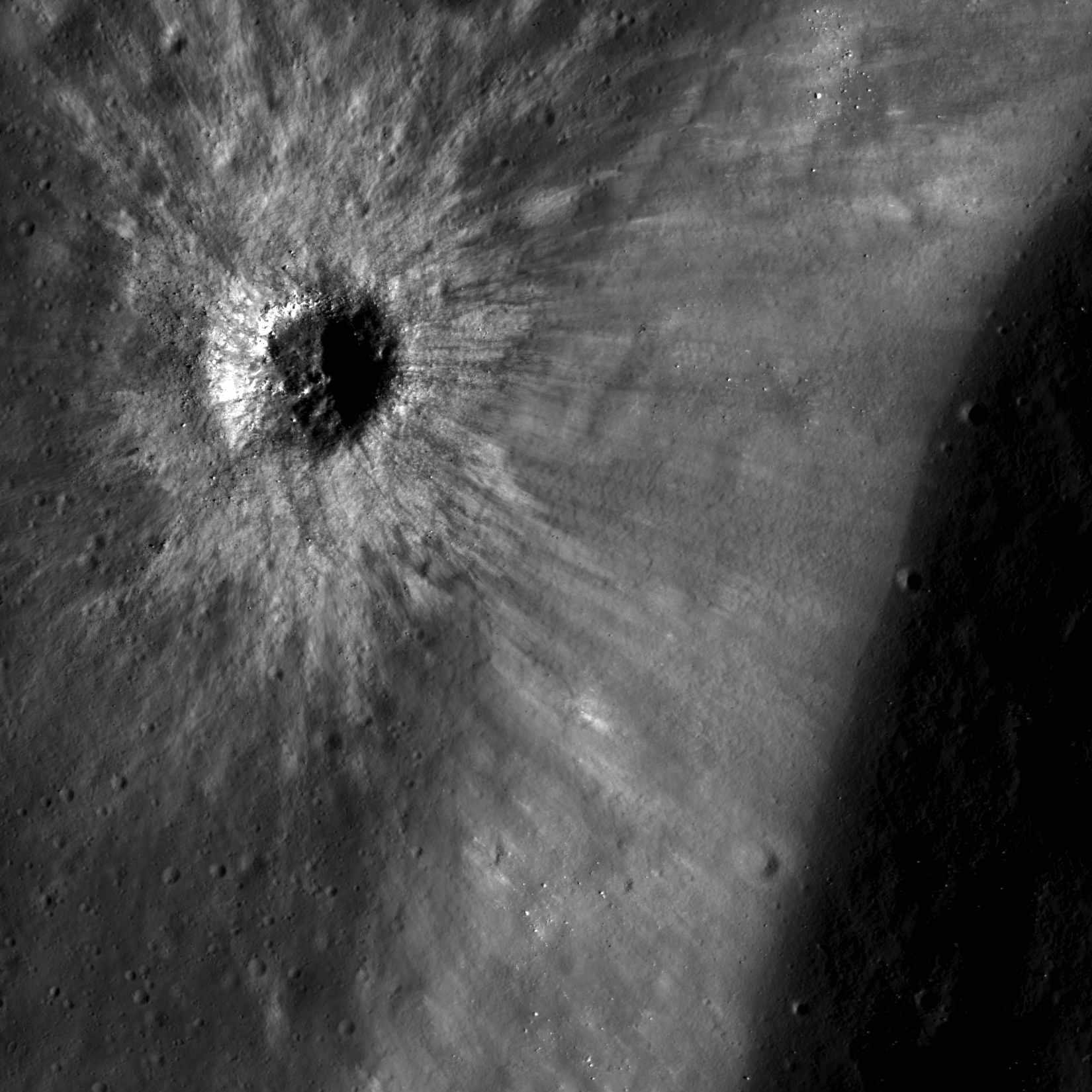 A fresh crater splashing ejecta across the edge of a fracture in Komarov crater. Image width is 2.5 km, NAC M191967463R [NASA/GSFC/Arizona State University].